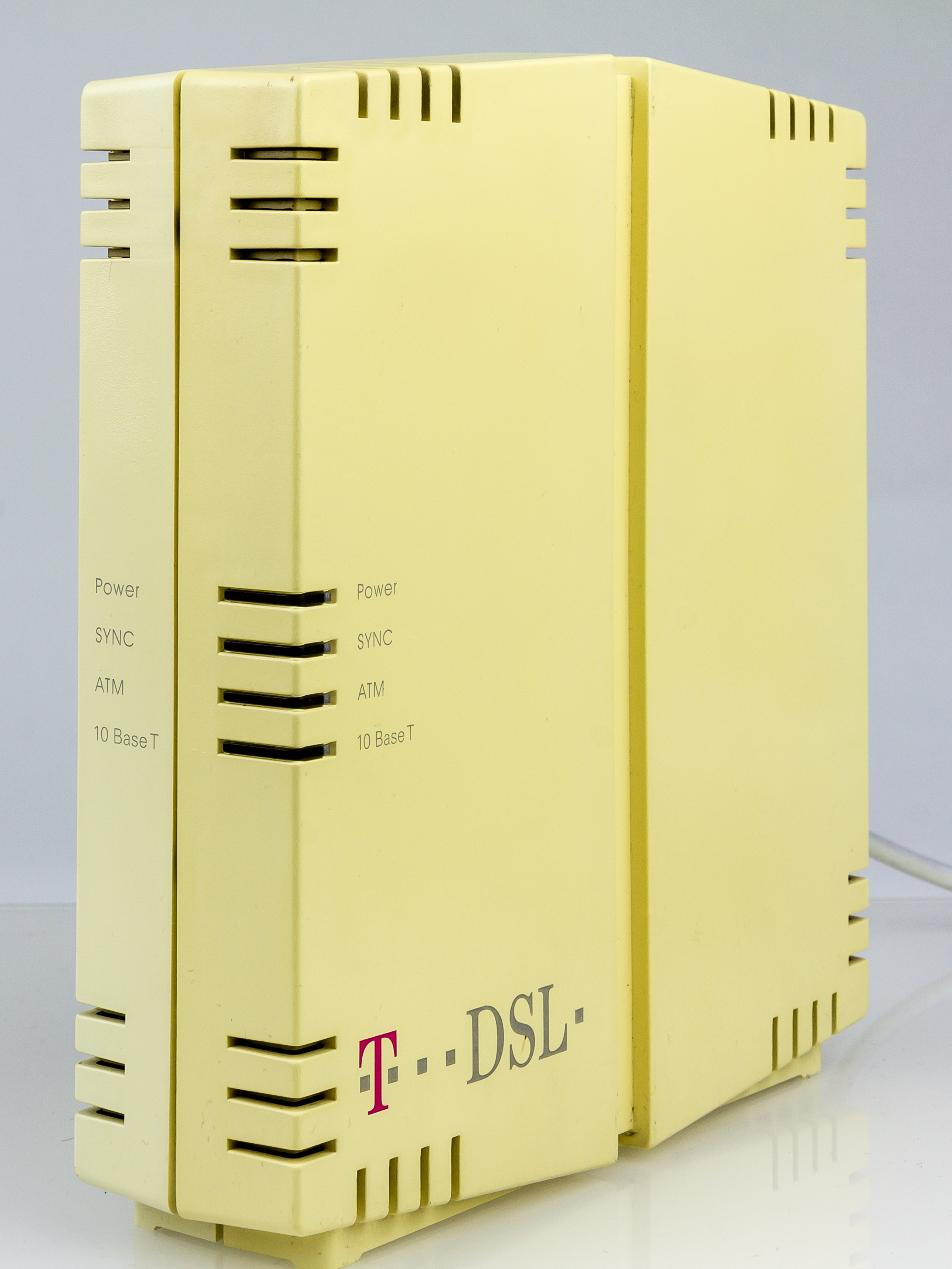 Siemens NTBBA 40 183 340-100